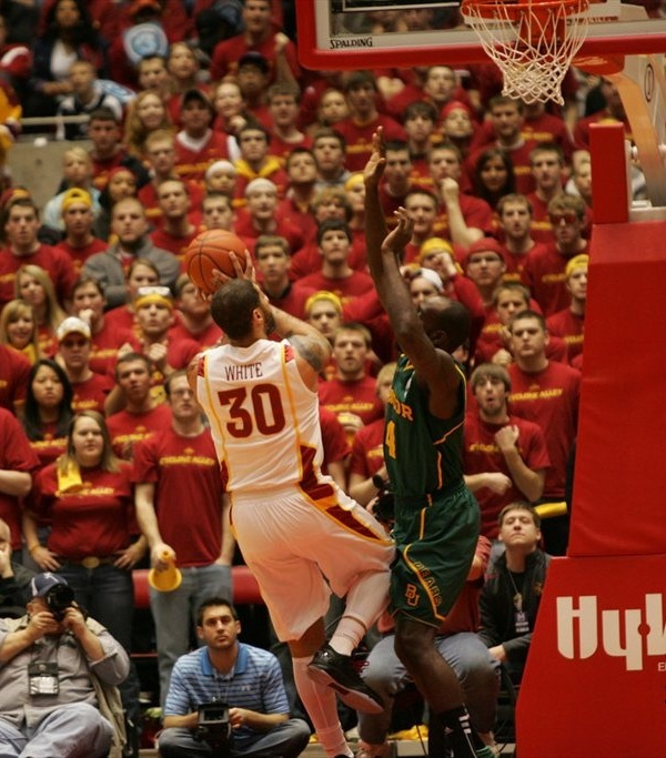 Royce White on March 3, 2012 attacking Quincy Acy